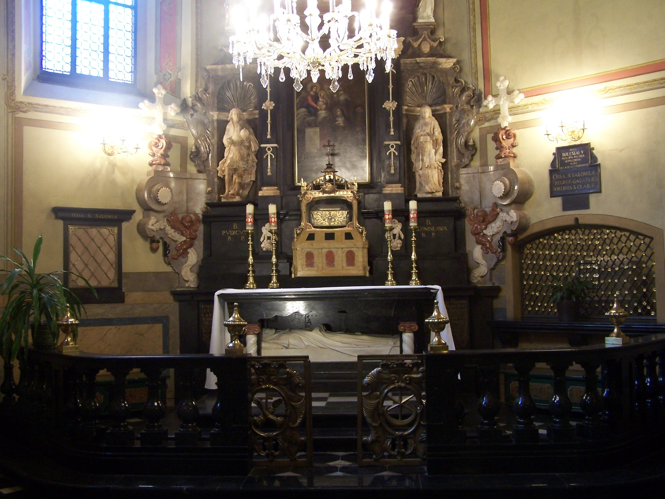 Chapel with grave of bl. Salome